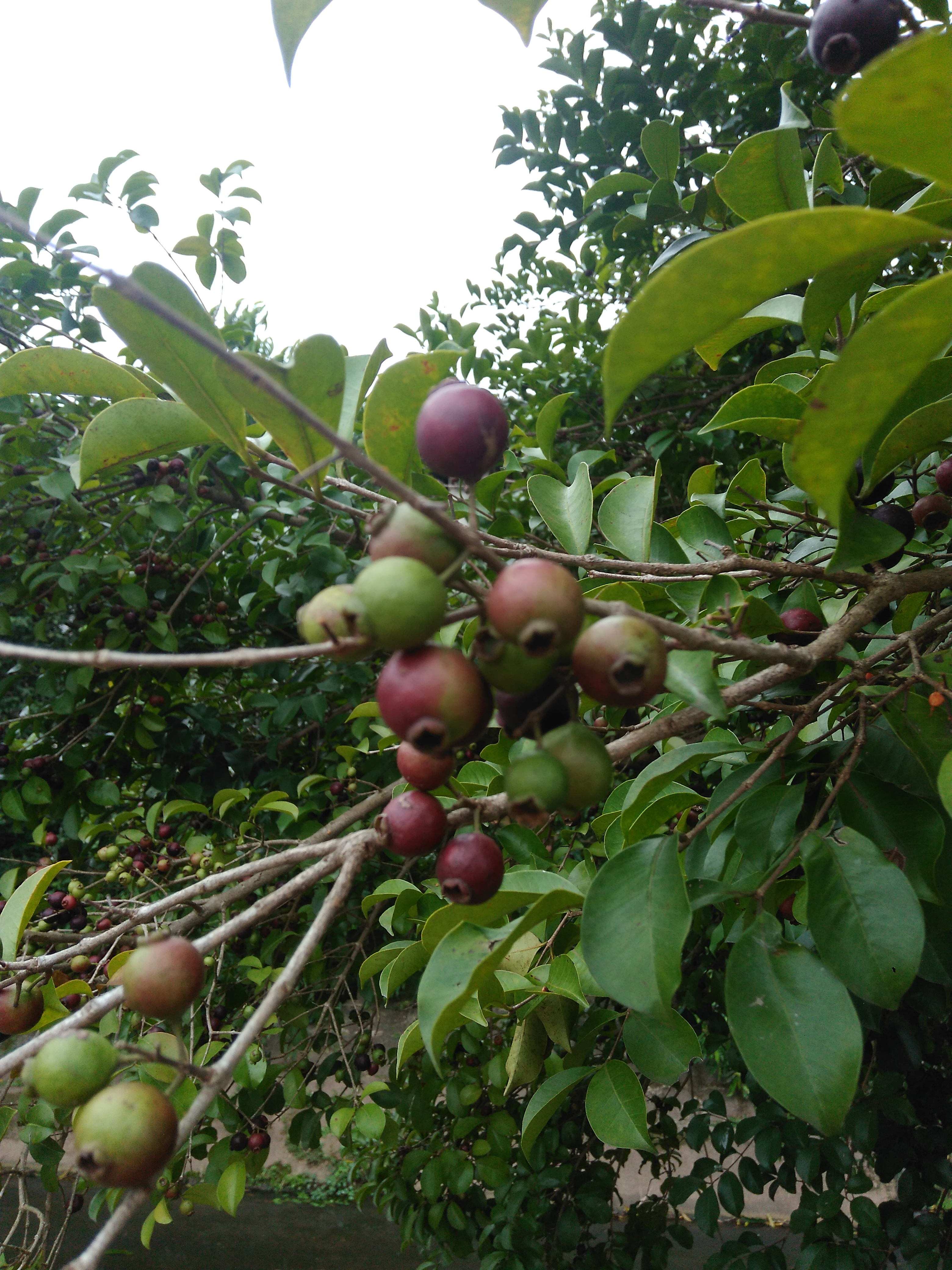 Araçá Roxo